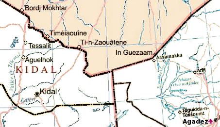 Map of the summer 2007 fighting between the tuareg insugencey and government forces in the northeast of Mali and northwest Niger